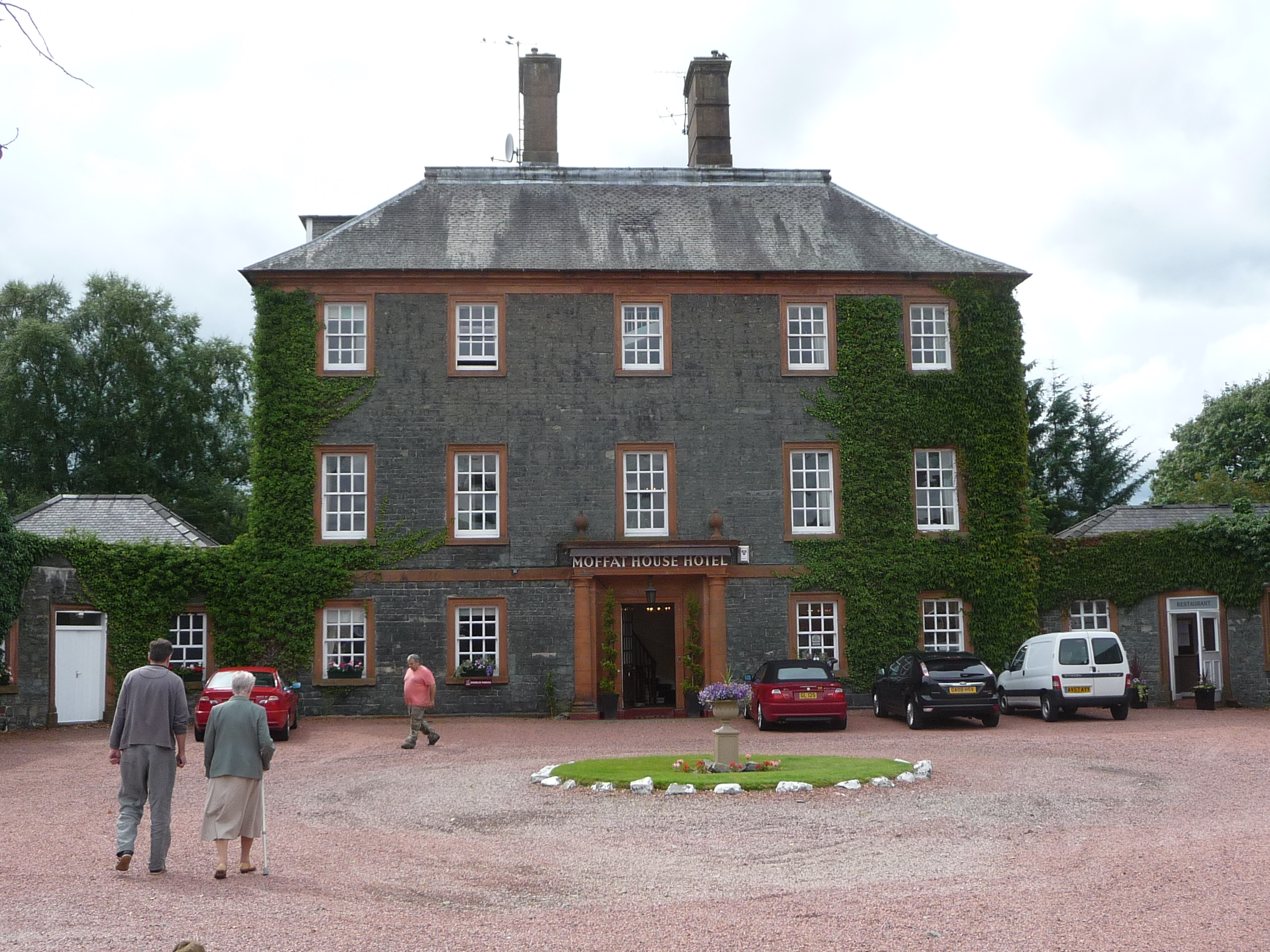 Moffat, Dumfries and Galloway, Scotland